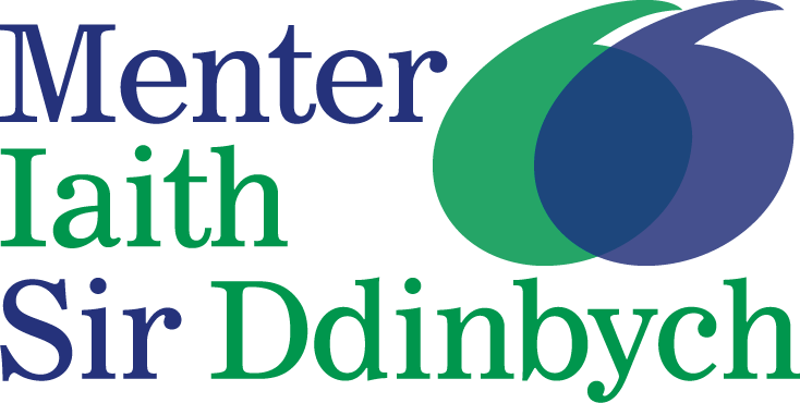 Design of the Menter Iaith Sir Ddinbych logo. The logo is displayed on any print or promotional piece of any project, event or campaign that Menter is part of.